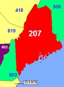 Map of state of Maine in red, with surrounding U.S. States/Canadian Provinces showing area codes.